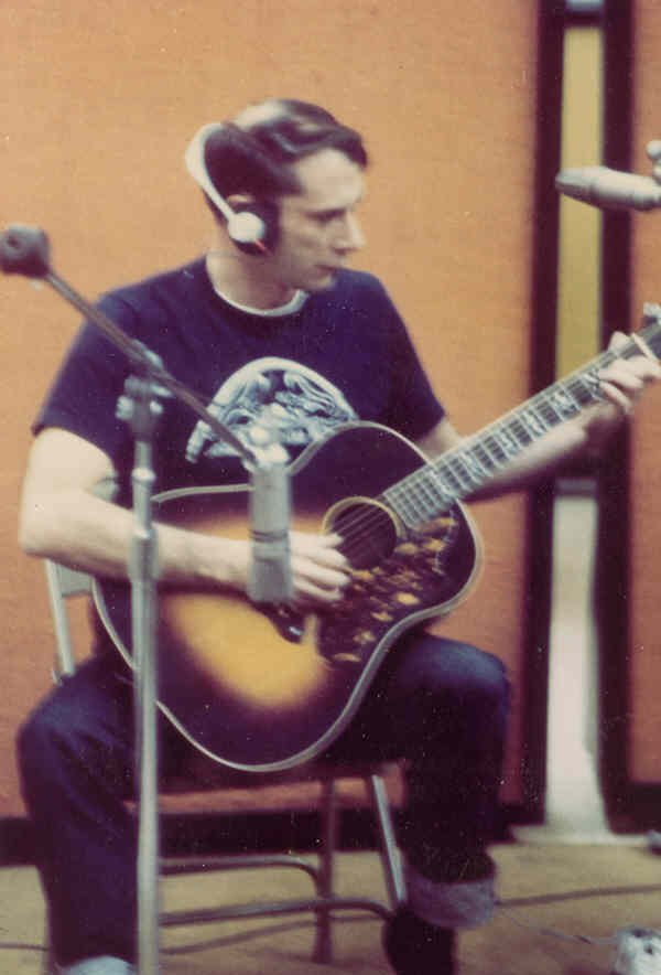 John Fahey in studio playing his Recording King guitar